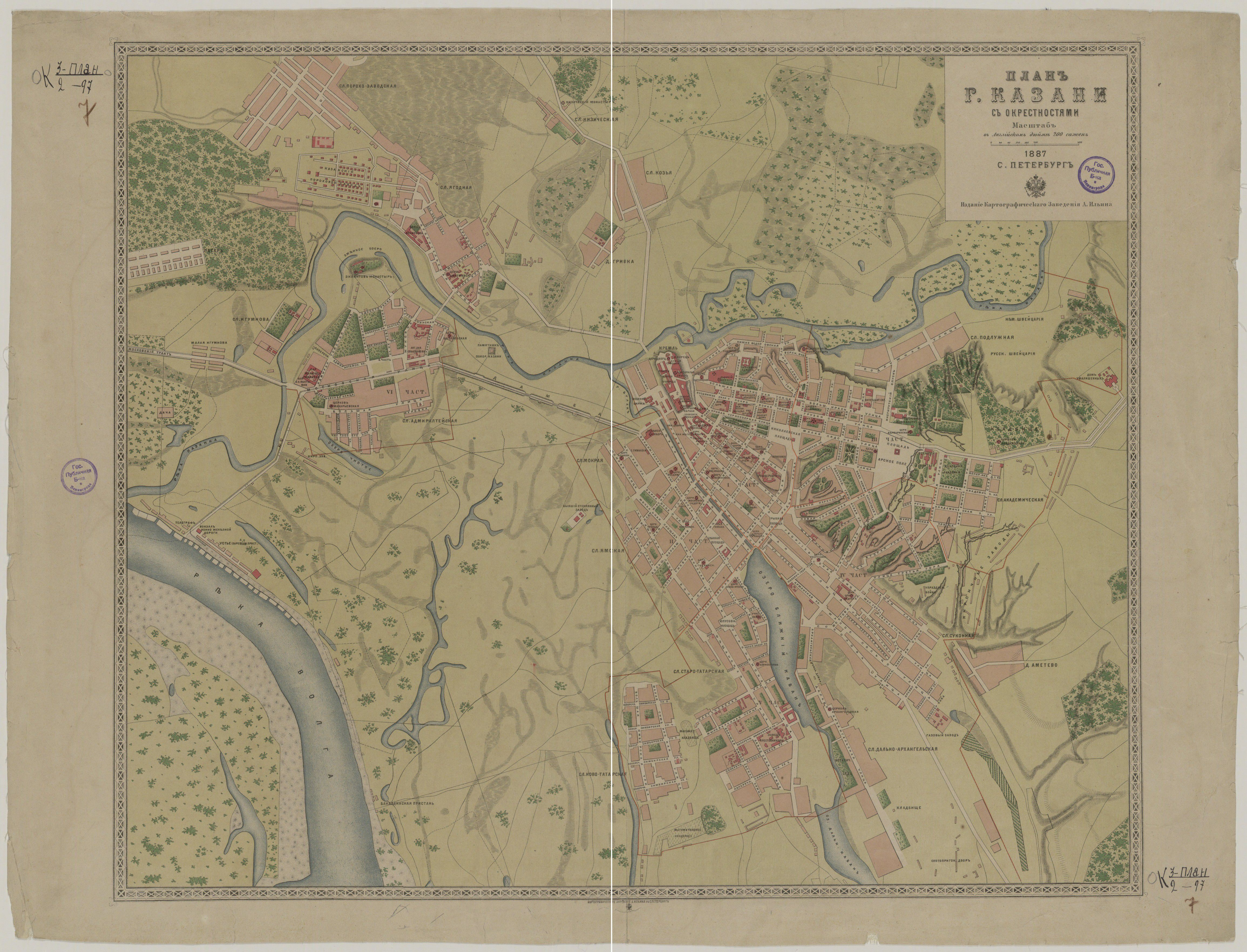 map of Kazan of 1887